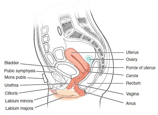 Based off